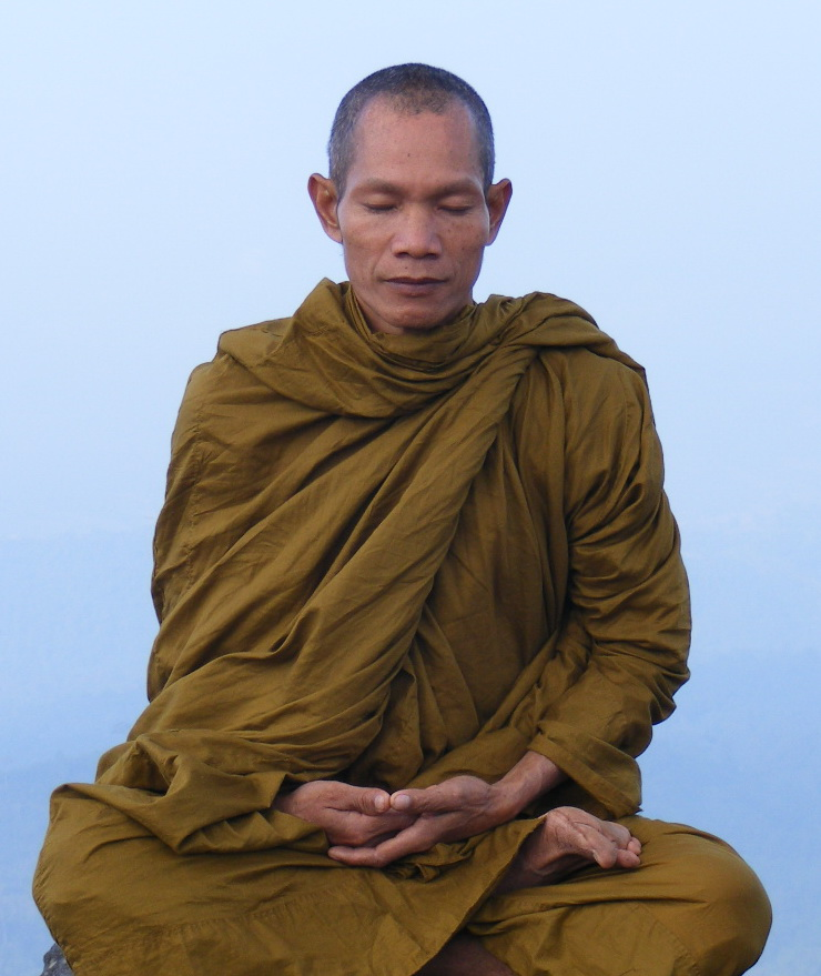 Ven. Luang Phor Somchai of Wat Khung TaphaoLocation: Phuhinrongkla National Park Thailand.